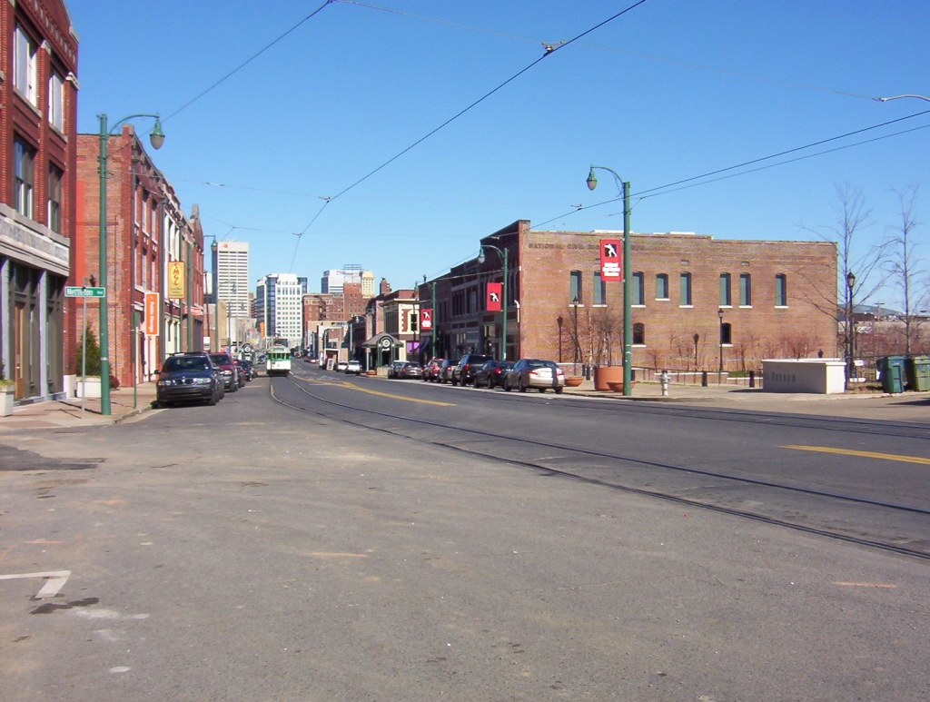 South Main Street Arts District in Memphis, Tennessee. (Jan. 2008) Photo made by: Thomas R Machnitzki I made the photo myself, feel free to use it.